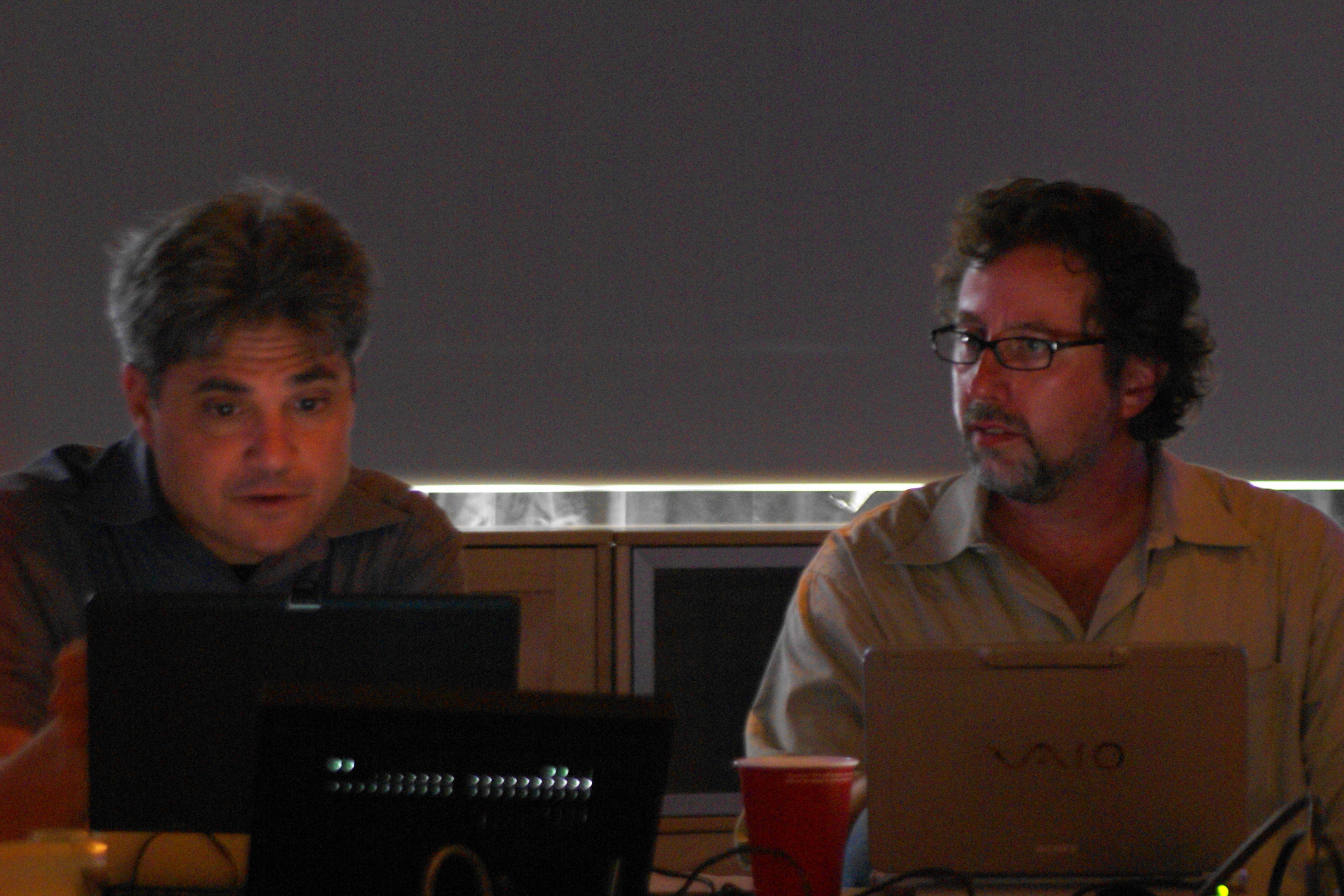 Mark Bolas and Jordan Weisman, August 21, 2006, Los Angeles, California, US